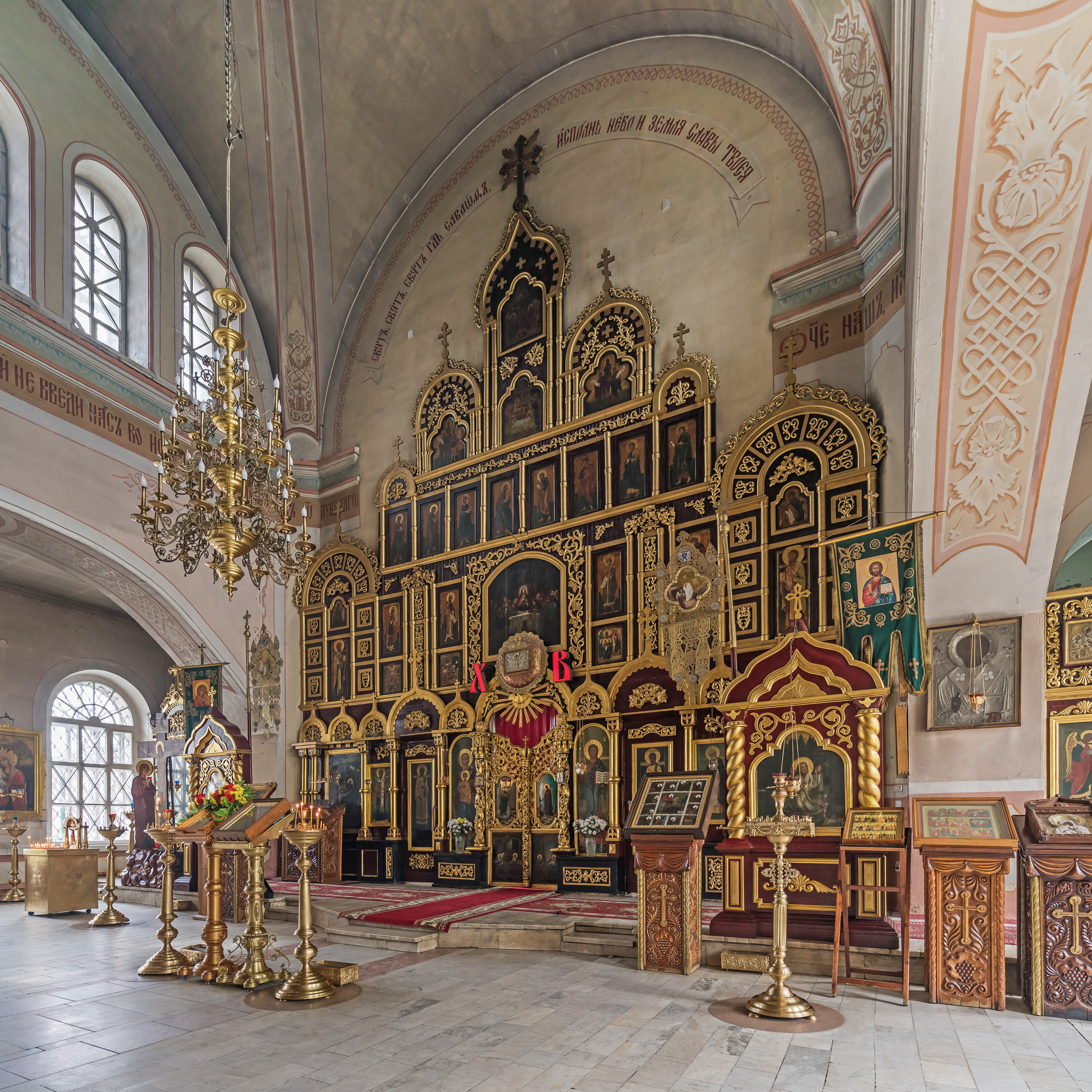 Saint Seraphim of Sarov Church in Kirov, Russia